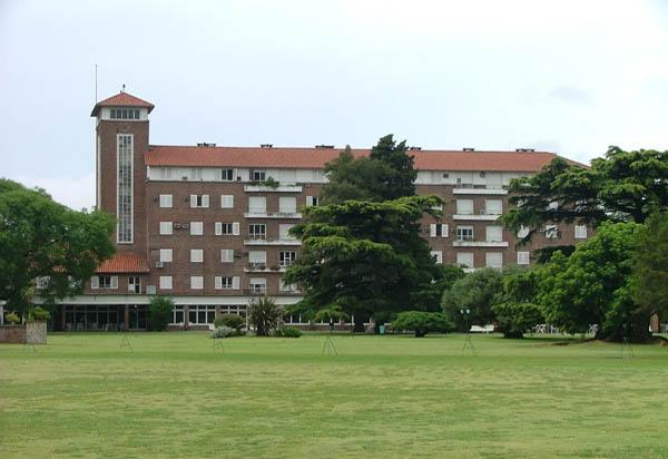 The Hindu Club's headquarters and hotel. City of Don Torcuato, Buenos Aires, Argentina.